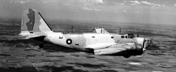 PictionID:46703093 - Catalog:16_007836 - Title:Douglas Digby RCAF 751 - Filename:16_007836.tif - Image from the Ray Wagner Collection. Ray Wagner was Archivist at the San Diego Air and Space Museum for several years and is an author of several books on aviation --- ---Please Tag these images so that the information can be permanently stored with the digital file.---Repository: San Diego Air and Space Museum